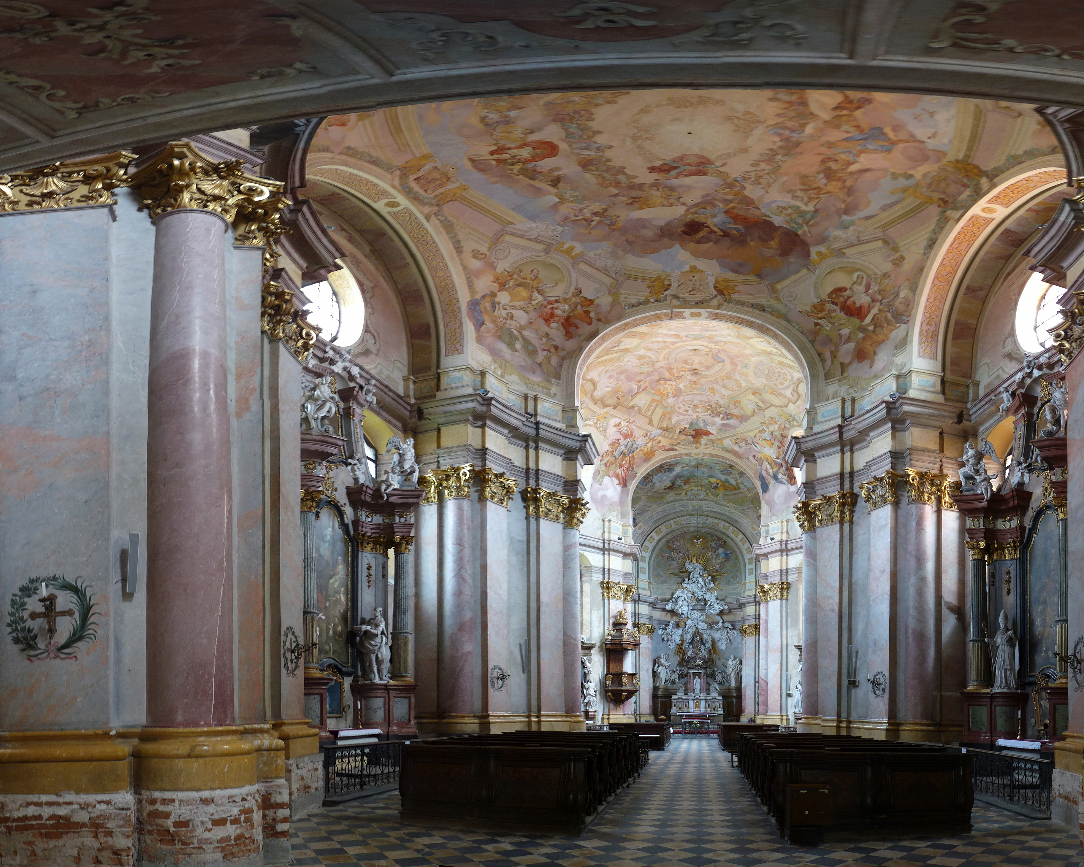 Interior of the Benedictine monastery church in the town of Rajhrad, Brno-Country District, South Moravian Region, Czech Republic.